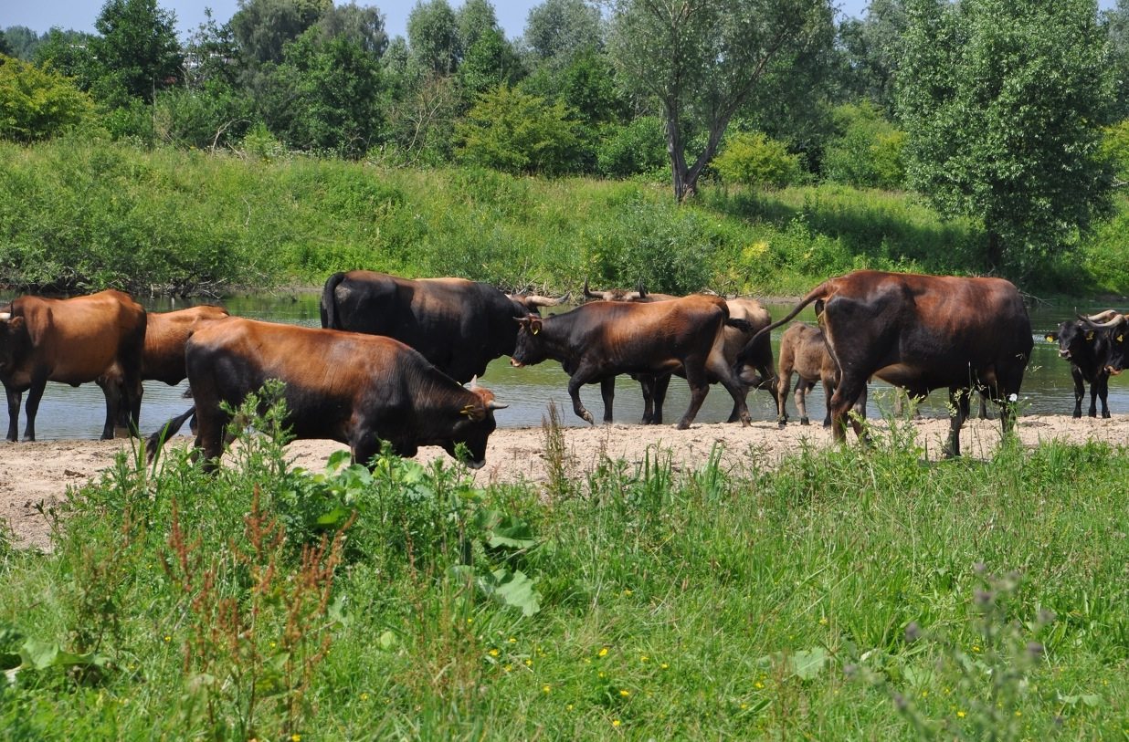 Taurus cattle at Lippeaue nature reserve (SO-007), Germany.